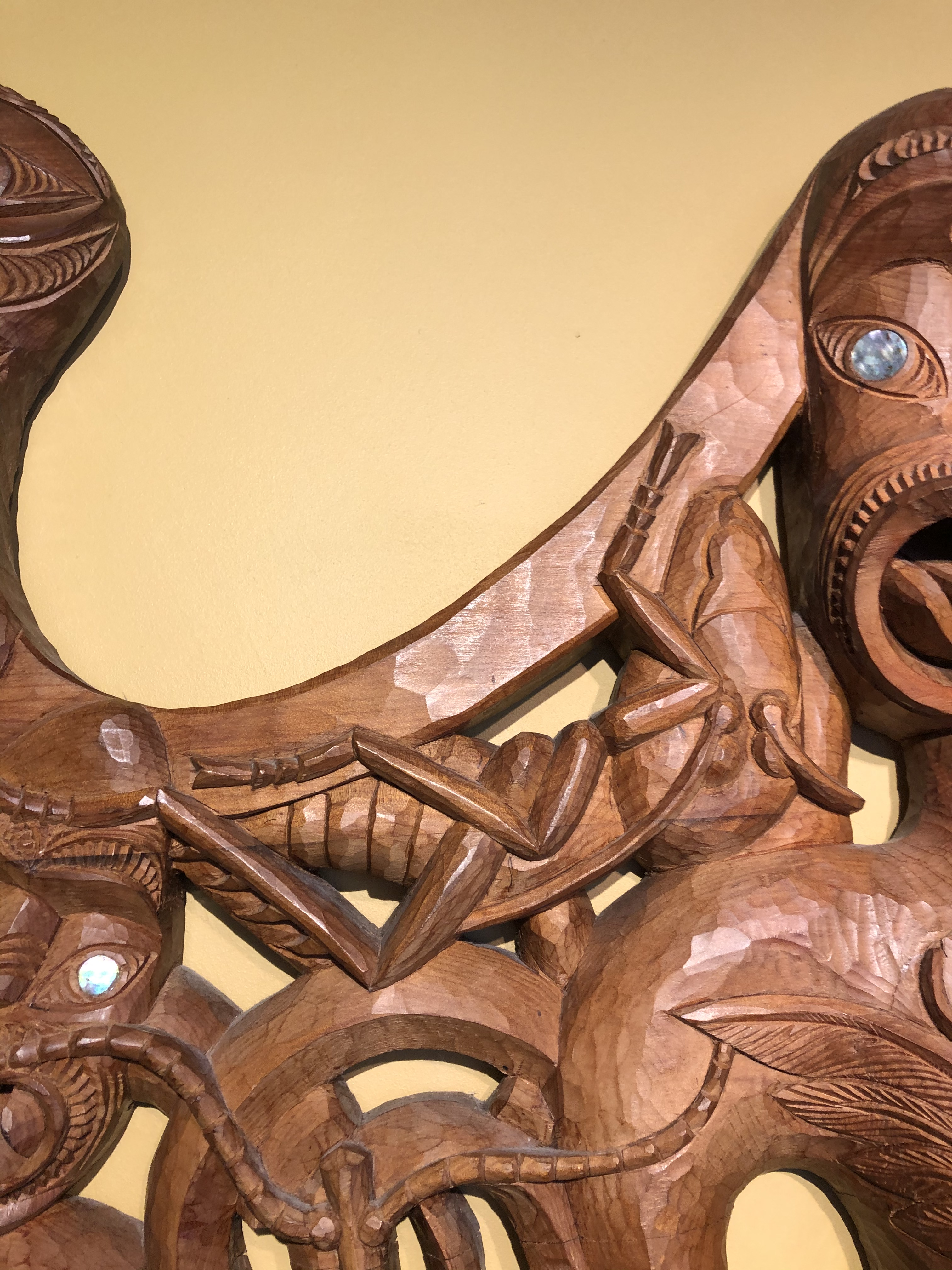 New Zealand Tree Weta carved by Denis Conway onto a Maori pare, on display at the New Zealand Arthropod Collection at Landcare Research, Auckland.